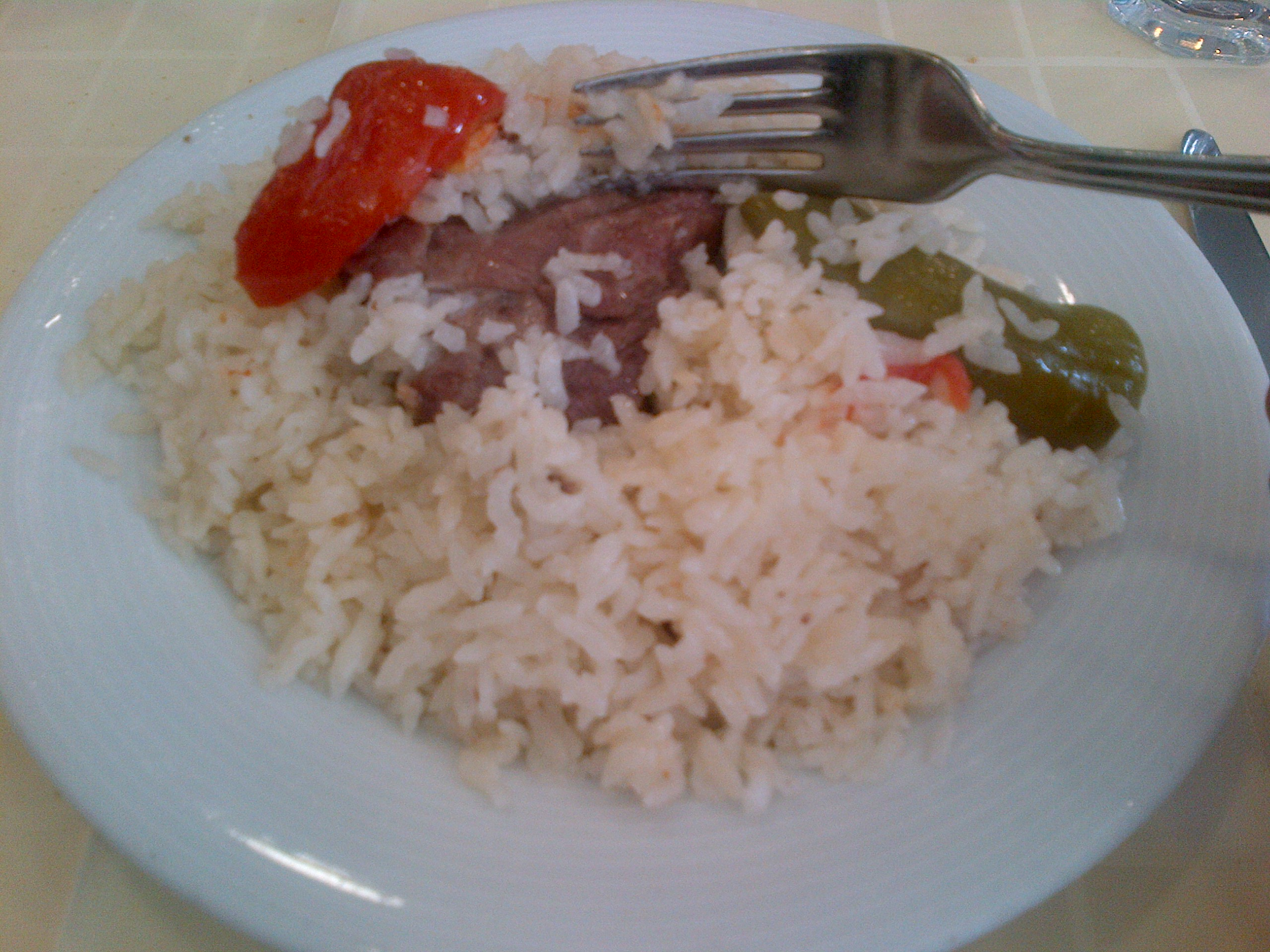 Ankara tava, according to some, briyani and this plate from the Turkish cuisine are related.